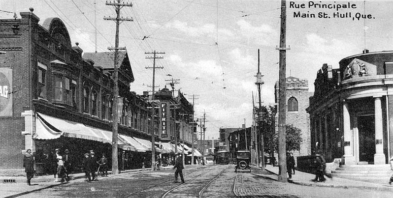 Rue Principale, Hull, Quebec.